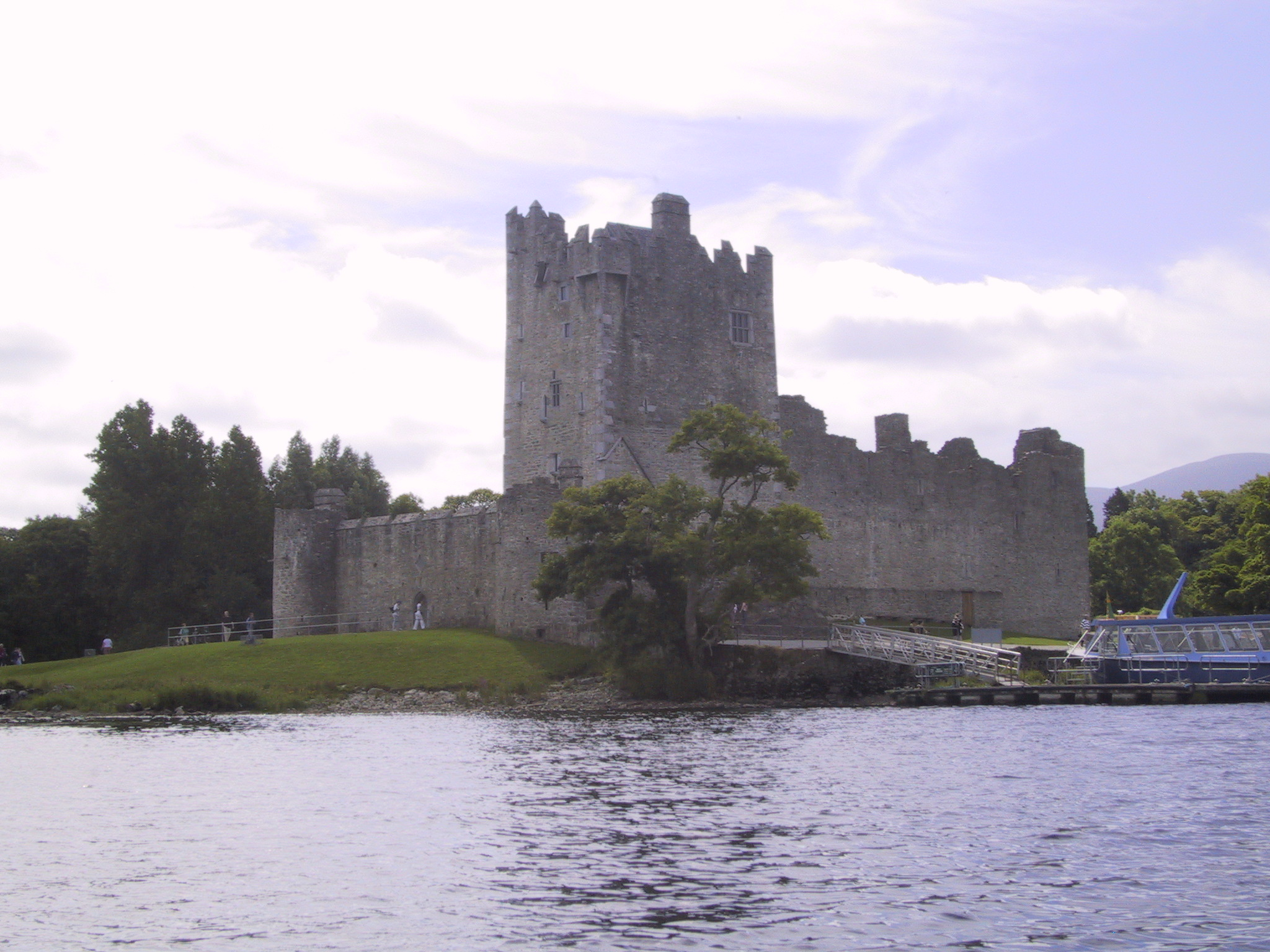 Ross Castle